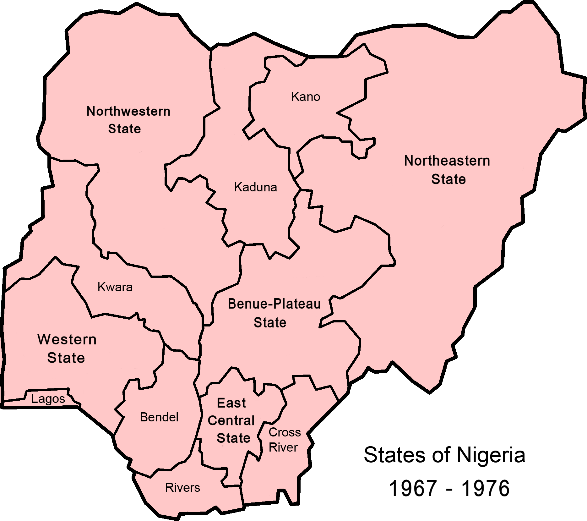 Map of Nigerian states, 1967 - 1976, from data from United States Geological Survey, Africa Data Dissemination Service.